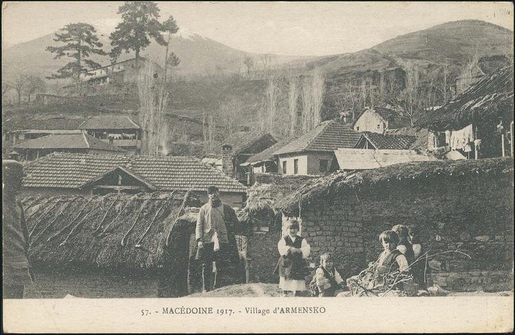 Subtitle: 57. - MACÉDOINE 1917. - Village d'ARMENSKO